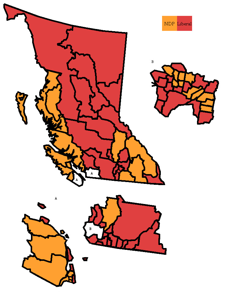 Map of the predictions at the Election Prediction Project by Milton Chan. I took the Tyee map|Image:Bcbattleground.PNG|Tyee map by Earl Andrew|User:Earl Andrew|Earl Andrew and changed it to show the EPP results. I thought it'd be an interesting comparison come May 17.